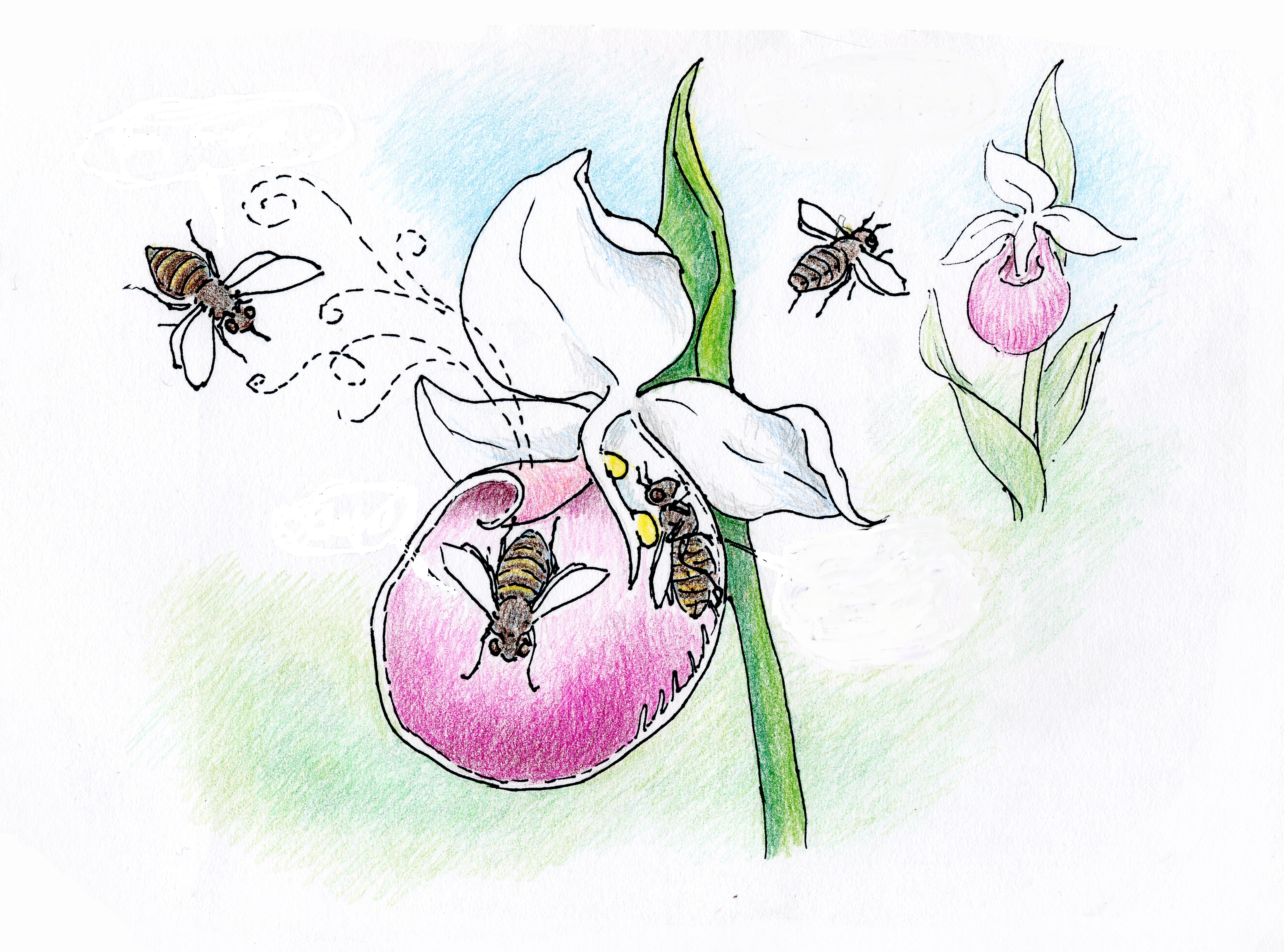 Cypripedium flower pollinated by trapping.